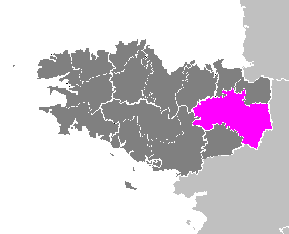 Maps of arrondissements and cantons of France: Arrondissement de Rennes.PNG